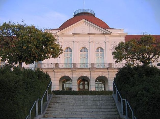 Schiller National Museum at Marbach am Neckar (Germany)